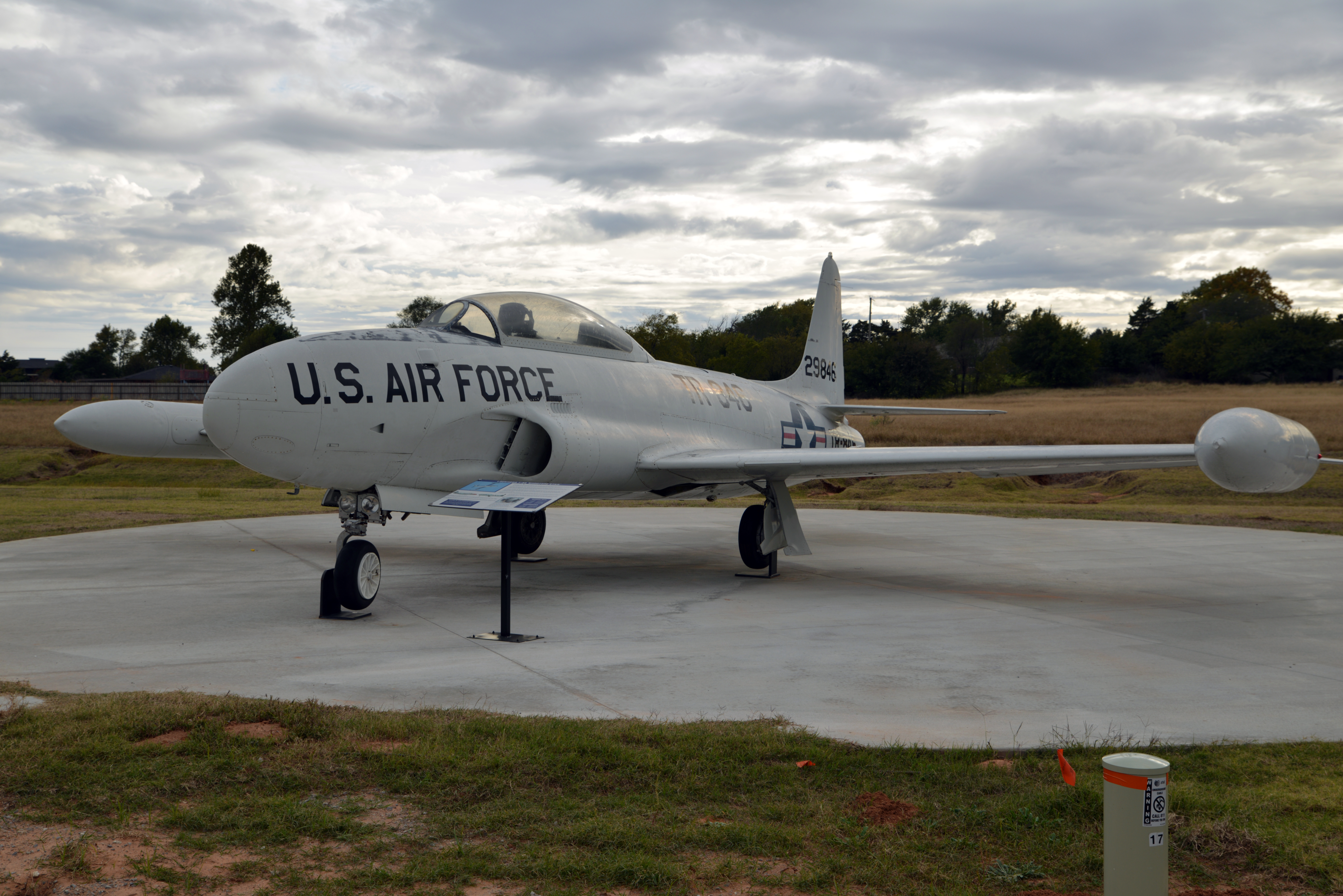 At the Stafford Air & Space Museum, Weatherford, Oklahoma, U.S.